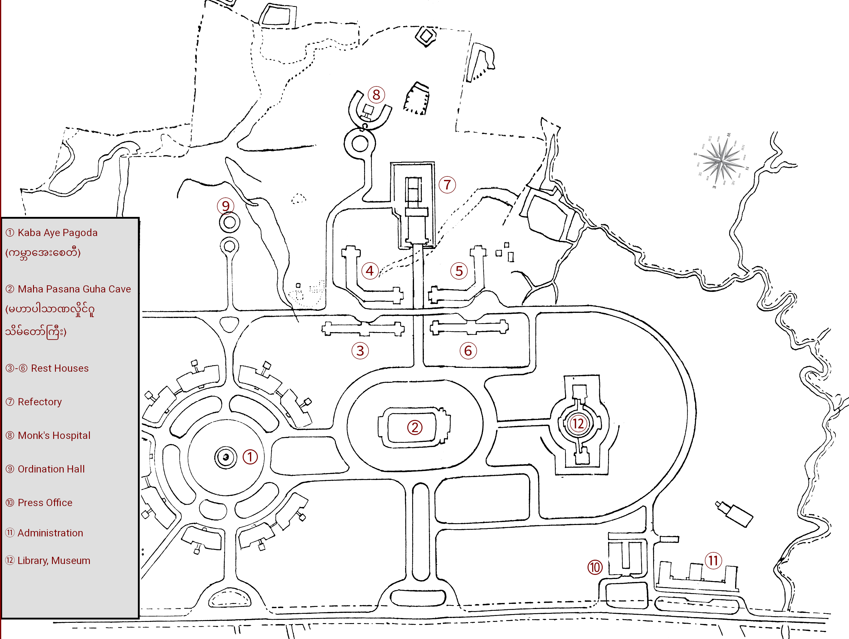 Map of the Kaba Aye Pagoda, Rangoon, at the time of the Buddhist Council 1954-6.